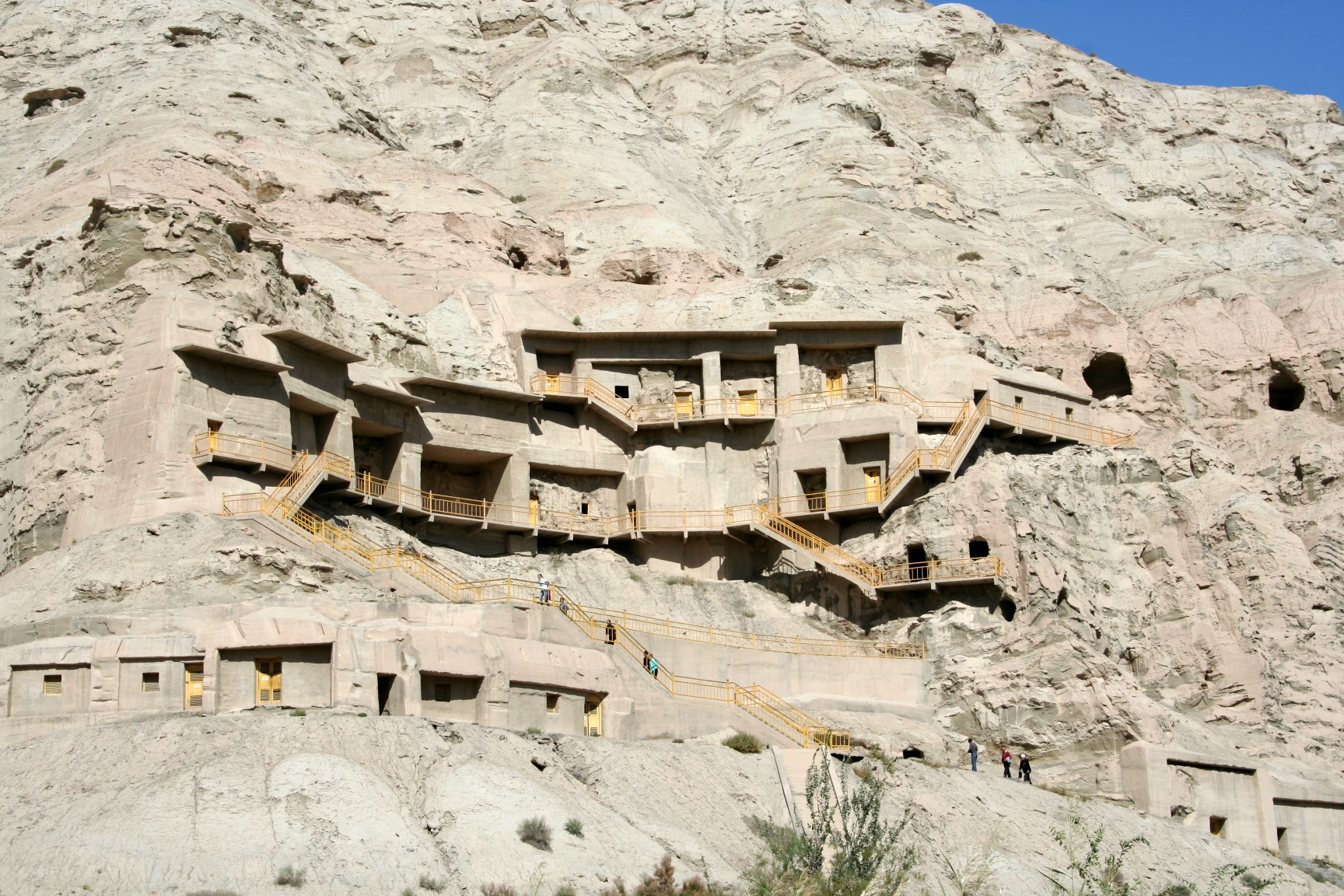 Photograph of the Kizil Thousand Buddha Caves in Xinjiang, China.